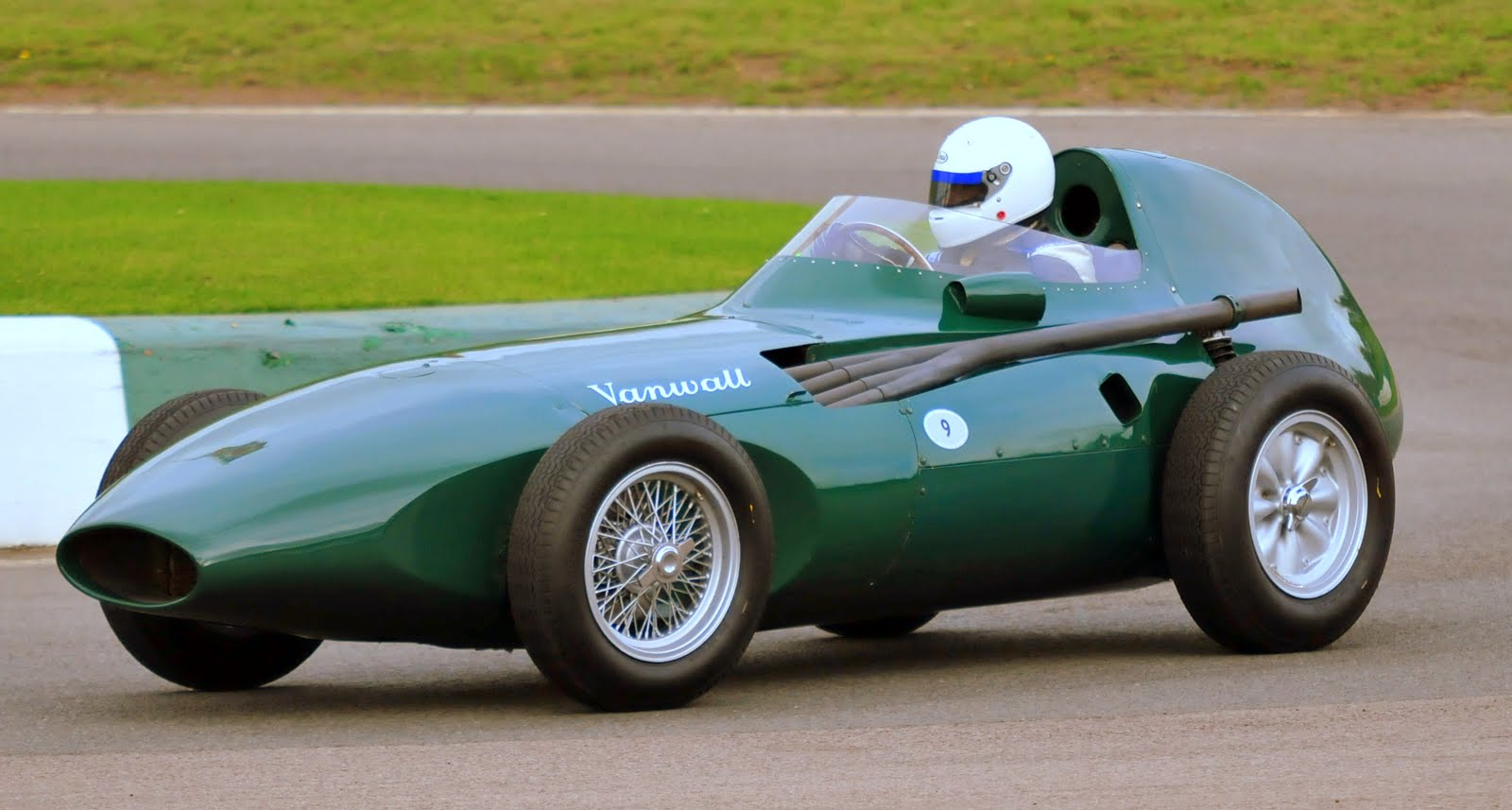 a 1958 Vanwall Formula One car, being tested at Mallory Park, October 2009.